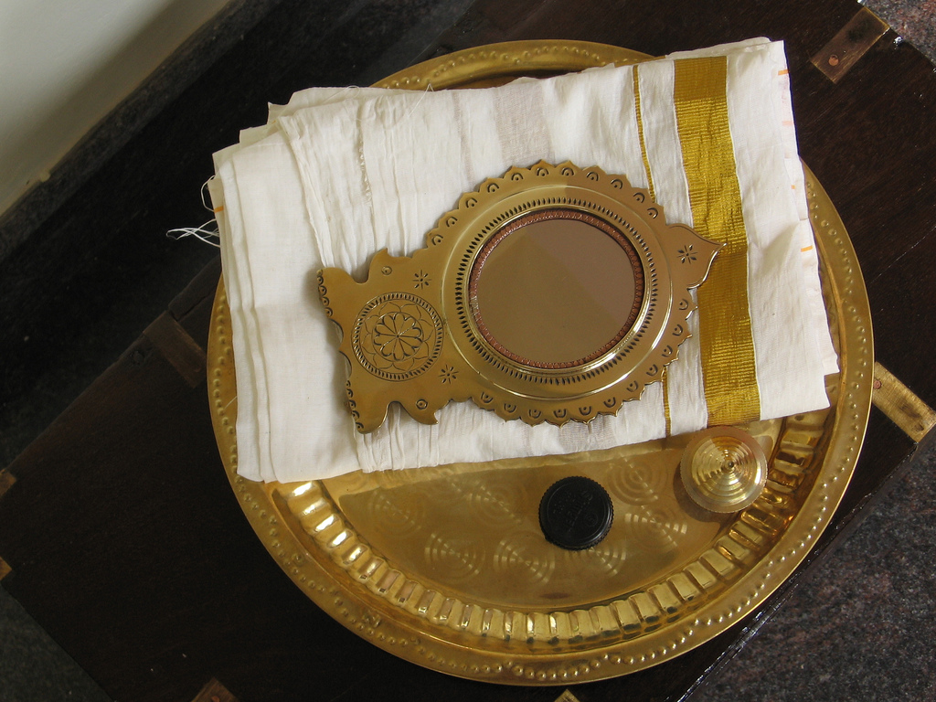 Aranmula kannadi is special type of mirror produced at Aranmula, a village in the state of Kerala in India. These unique metal mirrors are the result of Kerala's rich cultural and metallurgical traditions. The British Museum in London has a 45 centimeter tall Aranmula metal mirror in its collection. The origins of the Aranmula metal mirrors are linked with the Aranmula Parthasarathy Temple. Legend has it that eight families of experts in temple arts and crafts were brought by the royal chief to Aranmula from Tirunelveli district to wo ...